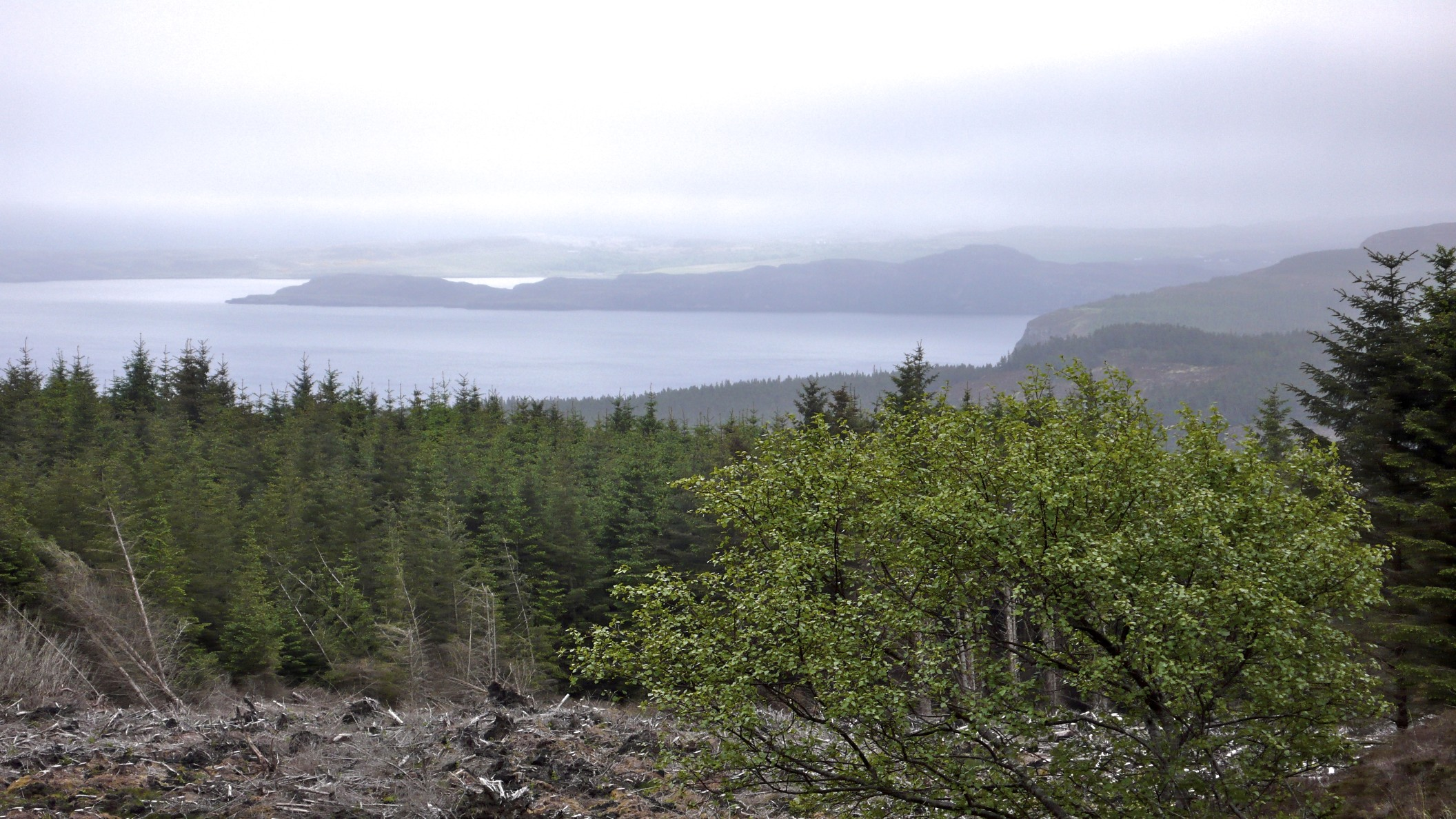 Loch Snizort towards Greshornish Point from Score Horan